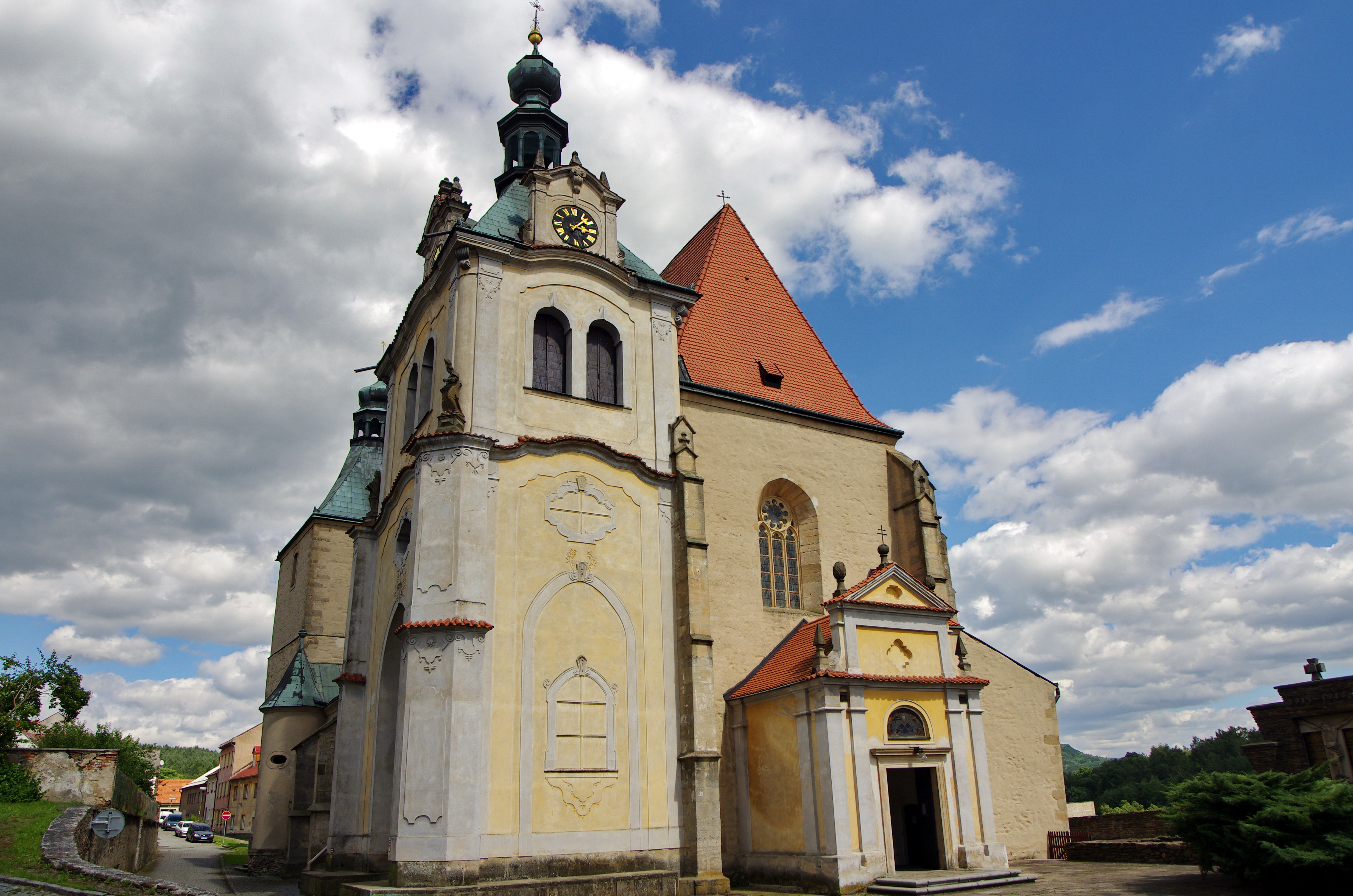 Church of Peter and Paul in Žlutice